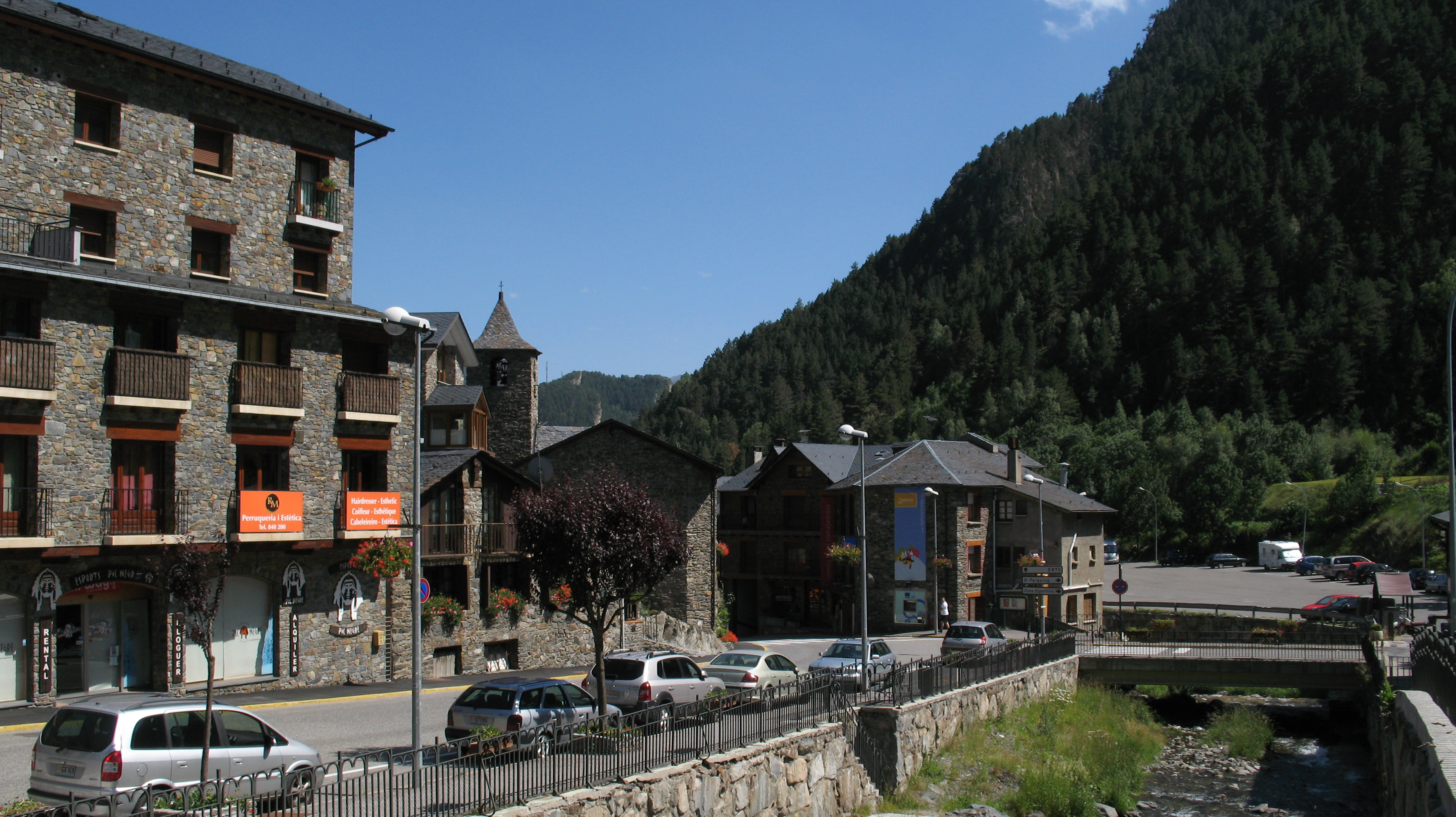 The CG-5 road of Andorra desserves Arinsal.